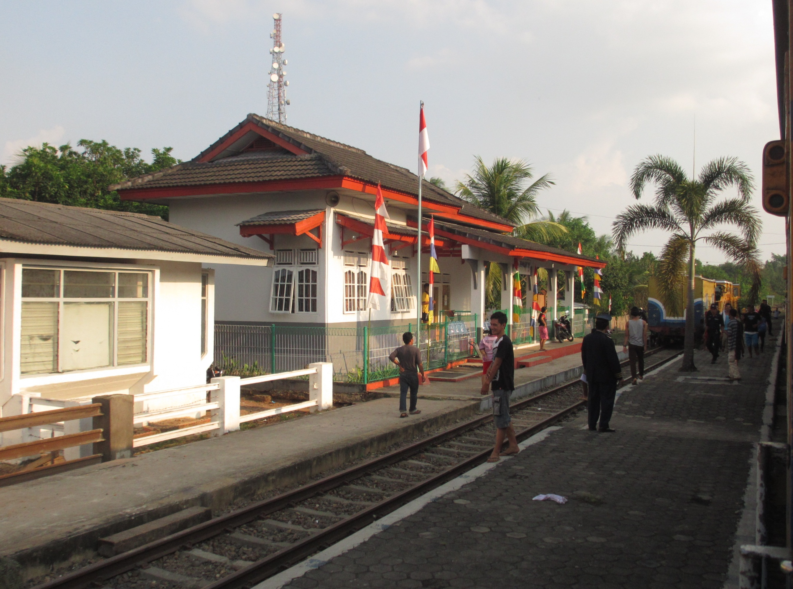 Peninjawan Railway Station.